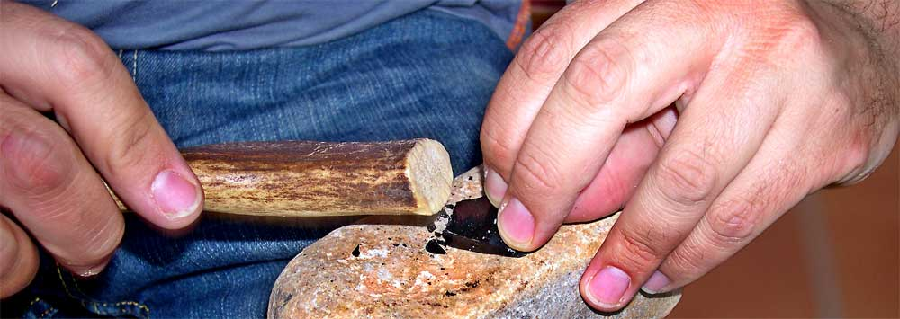 Retouch experimental by direct percussion with an antler piece on an anvil stone